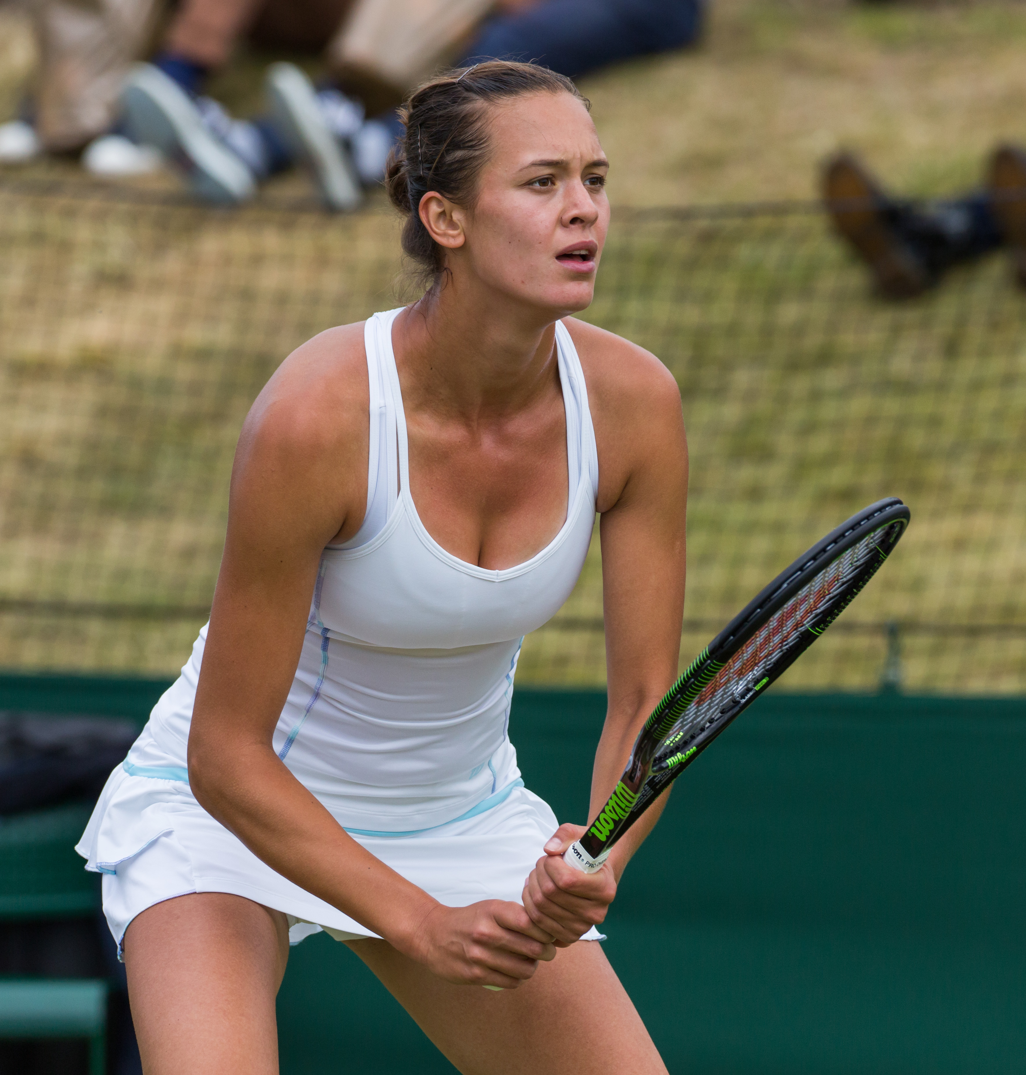 Nigina Abduraimova competing in the first round of the 2015 Wimbledon Qualifying Tournament at the Bank of England Sports Grounds in Roehampton, England. The winners of three rounds of competition qualify for the main draw of Wimbledon the following week.